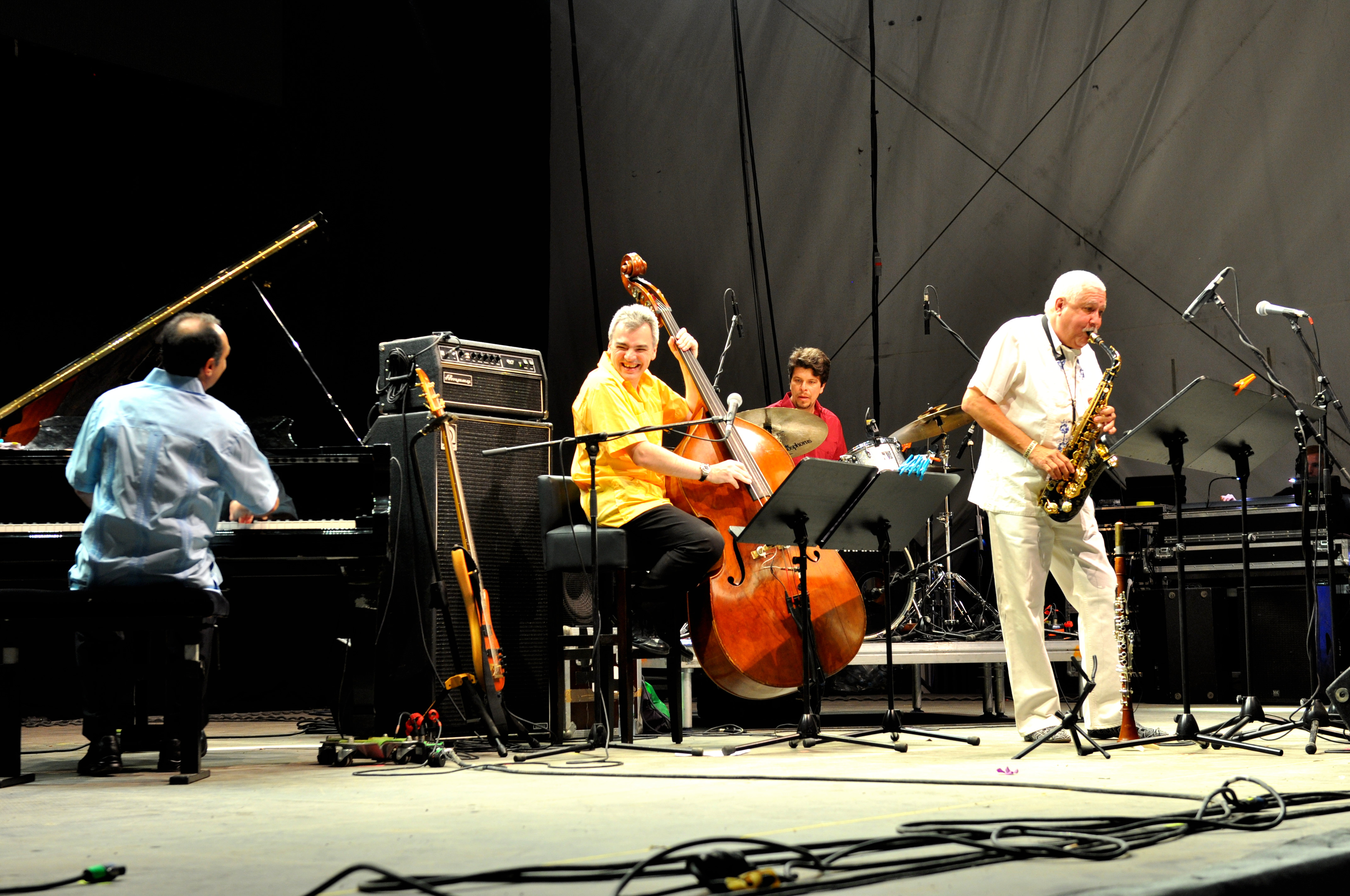 Trio Corrente feat. Paquito D'Rivera (BRA/CUB), World Music Festival Horizonte 2015, Ehrenbreitstein Fortress, Koblenz, Rhineland-Palatinate, Germany Festivalsommer This photo was created with the support of donations to Wikimedia Deutschland in the context of the CPB project "Festival Summer".